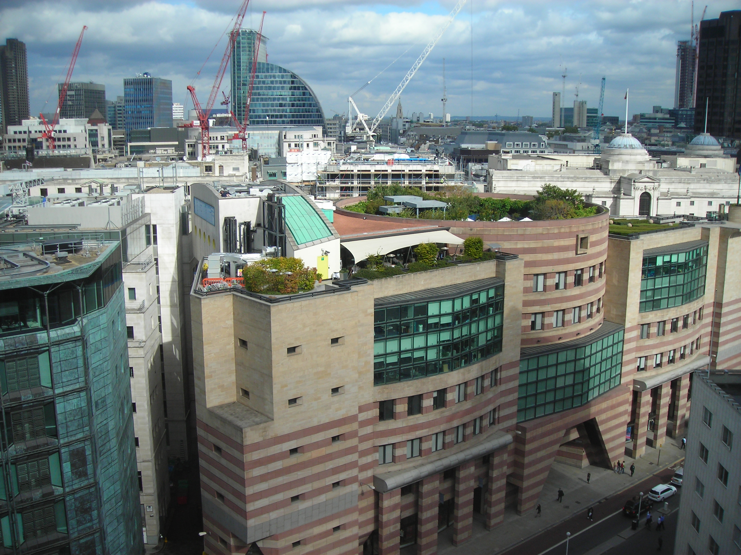 1 Poultry taken in 2008 from roof of Temple Court. Photograph by Tristán White.